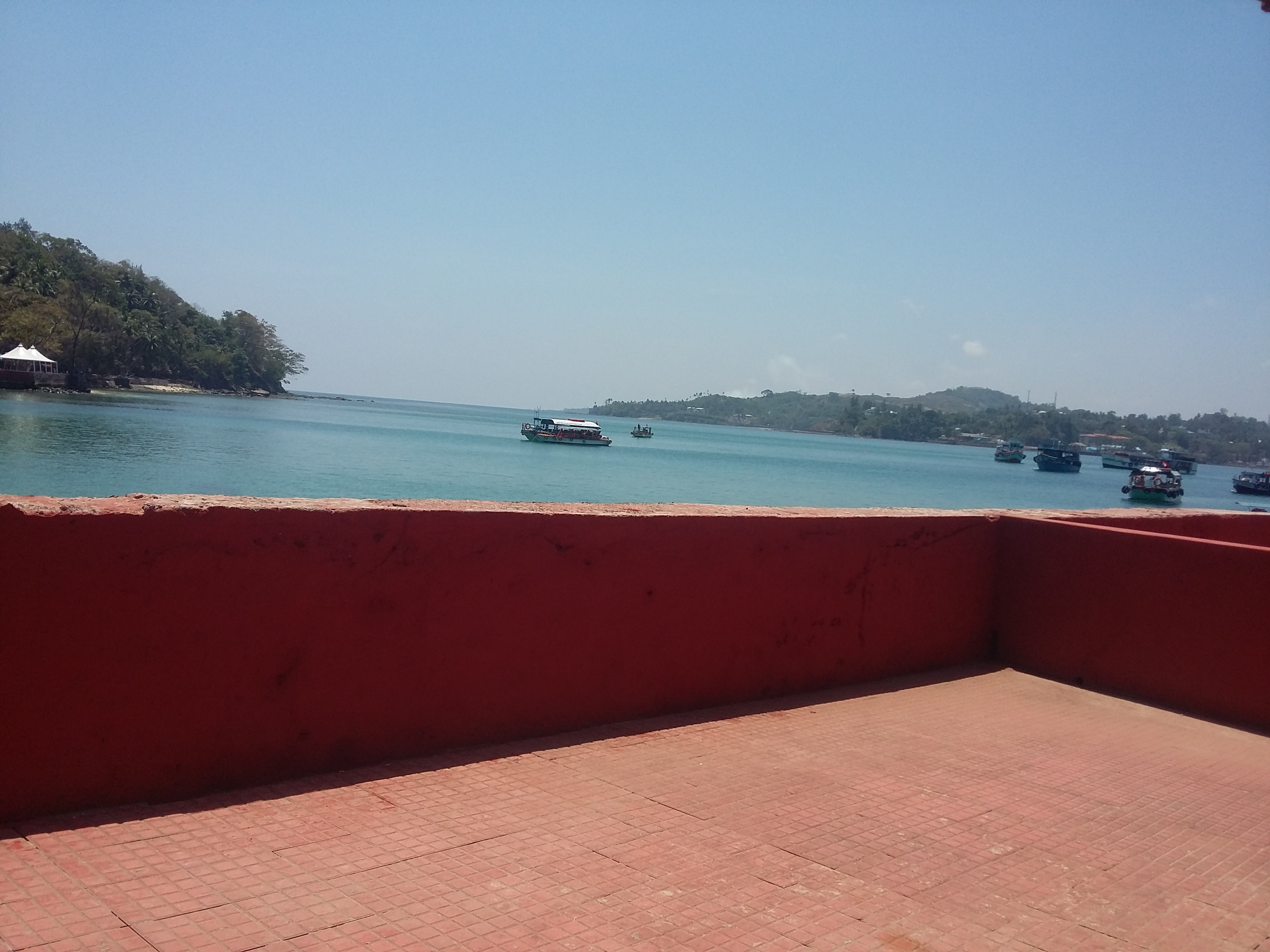 The first sight at Ross Island